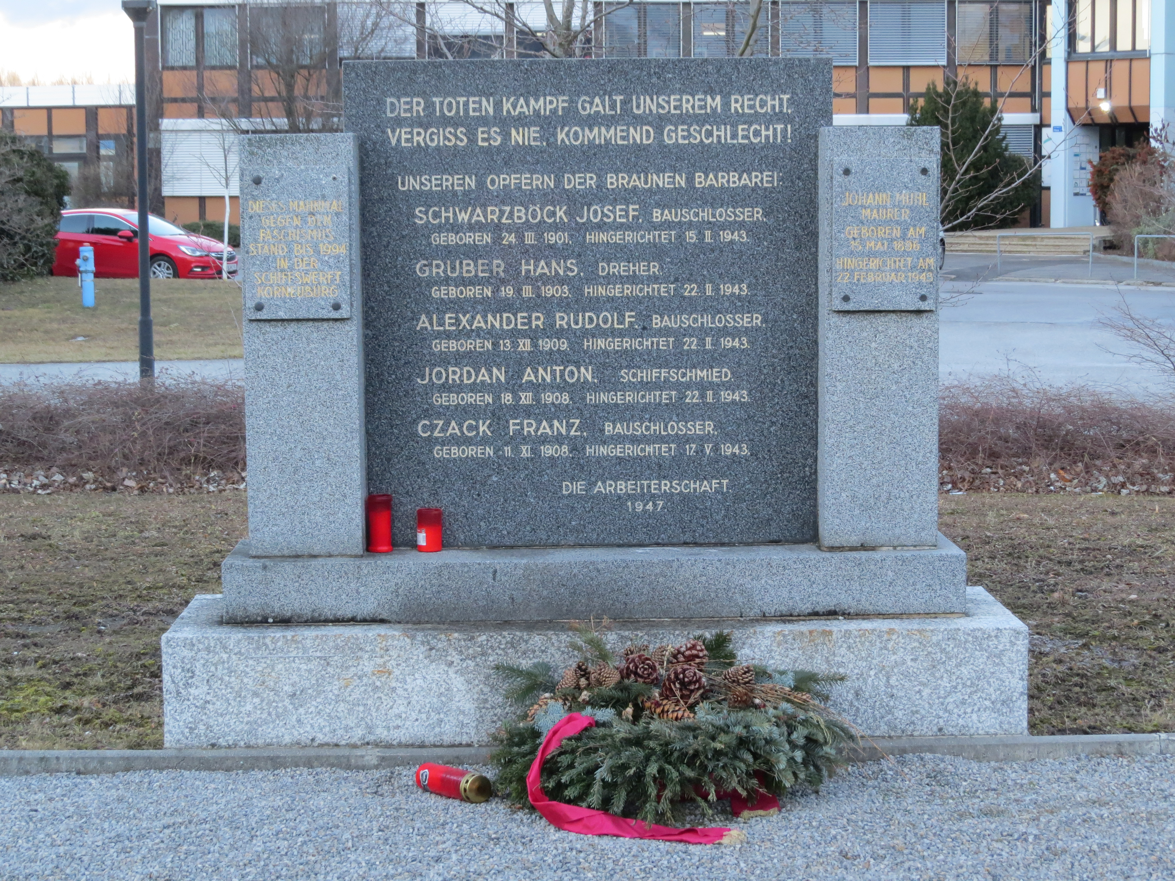 Plaque at Hafen Korneuburg, Austria